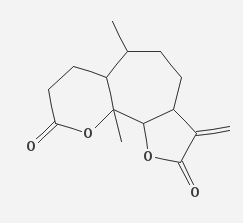 Psilostachyin C, isolate of Ambrosia psilostachya.